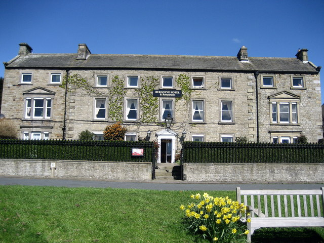 Burgoyne Hotel, Reeth The village of Reeth is tidily arranged around a large square green. On the northern end of it, this rather splendid building stands - alone and proud